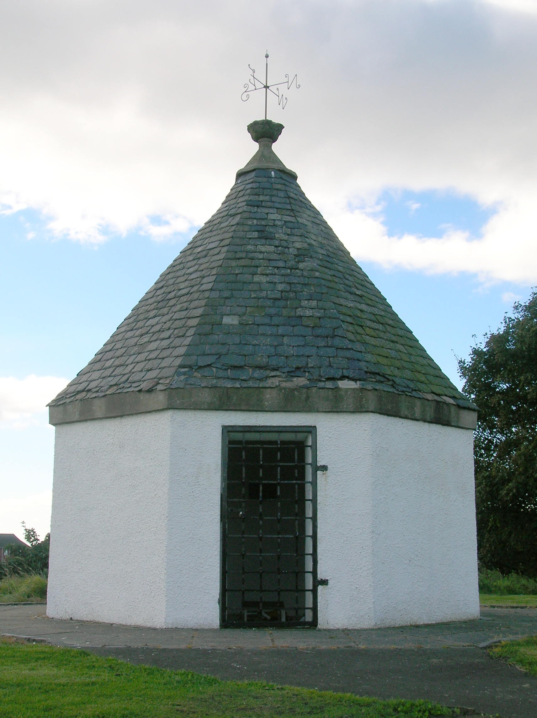 The Old 1642 Powder or Pouther Magazine at Irvine, North Ayrshire, Scotland. Built by order of King James VI - all Royal Boroughs were instructed to construct them. Restored by Irvine Development Corporation in 1992.